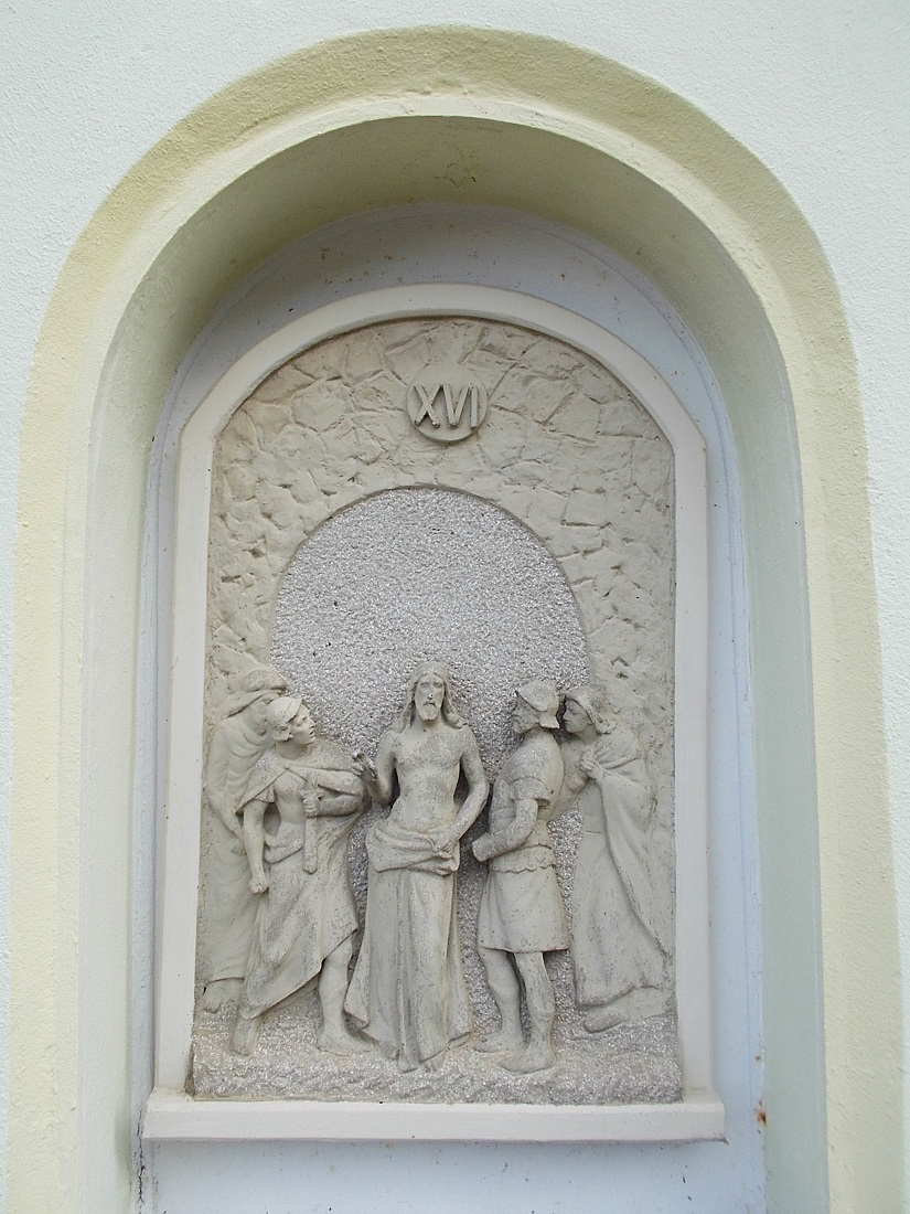 Resurrection of Jesus Station HERE the 16.Station , Stations of the Cross (built in 1883, renewed in 1988?, reliefs by János Máriahegyi?) in the Cemetery at Bogácsi út and Mátyás király út corner, Mezőkövesd, Borsod-Abaúj-Zemplén County, Hungary